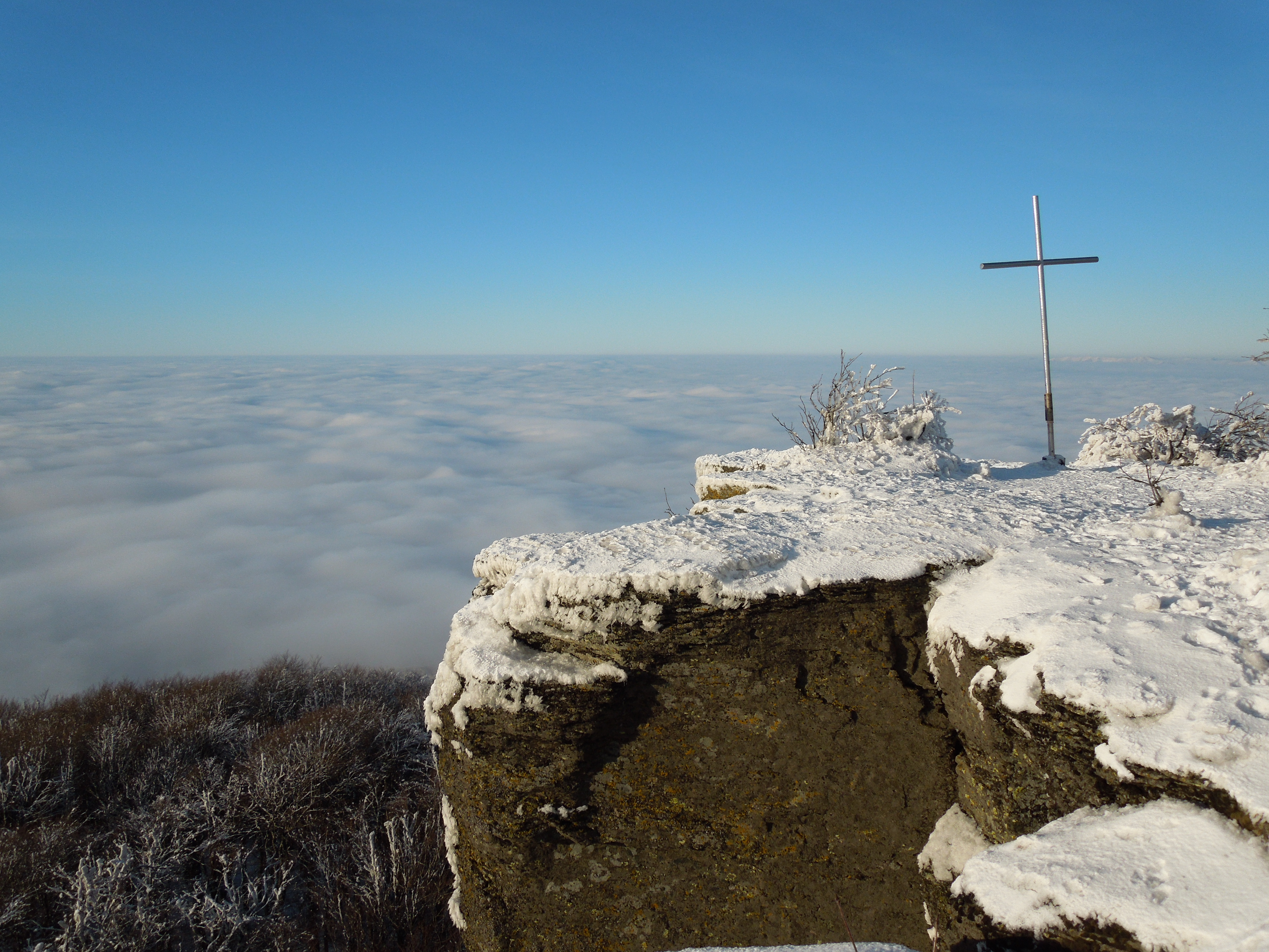 Inversion on Sninský kameň This is a photography of Natura 2000 protected area with ID SKUEV0209